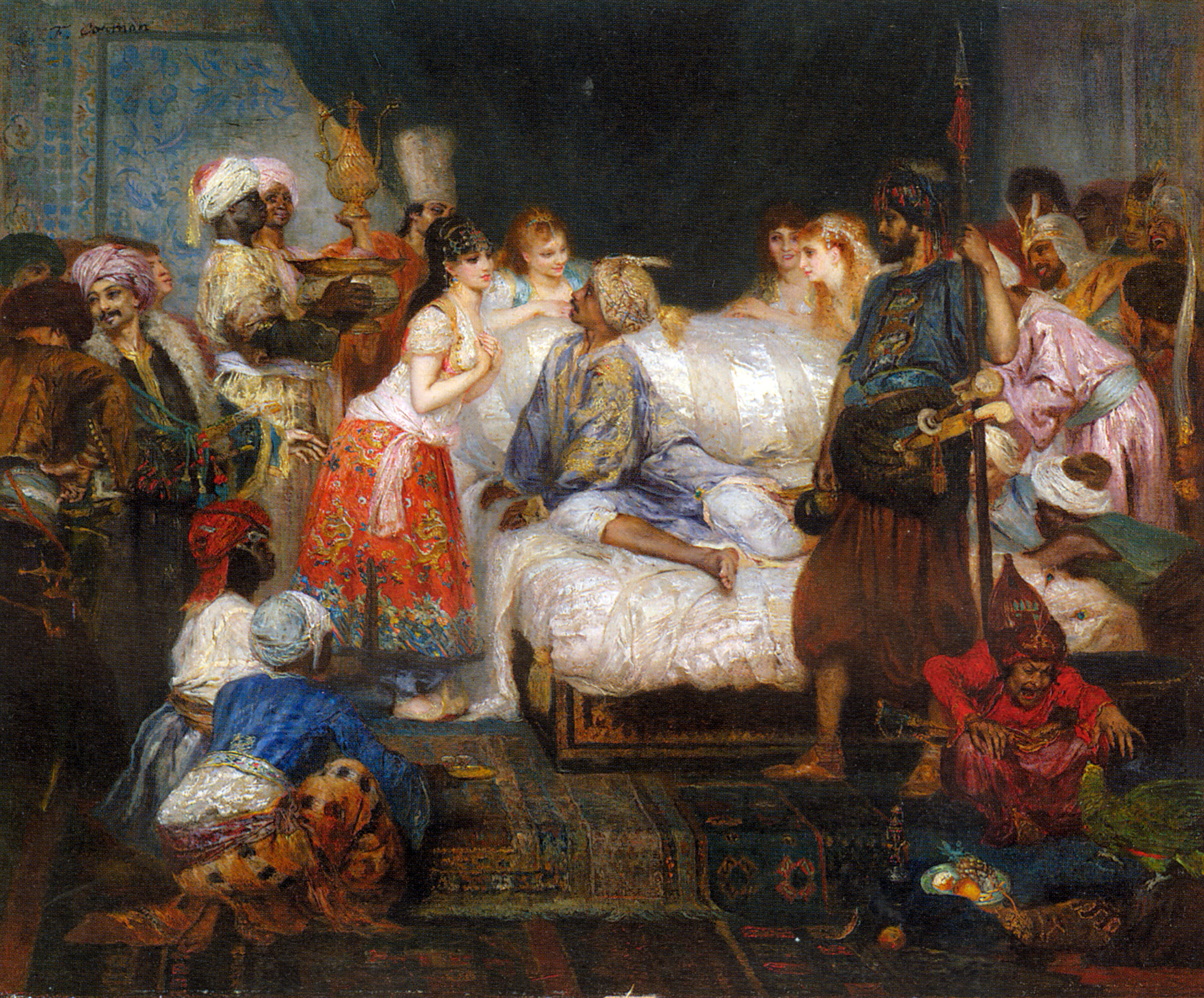 Harem